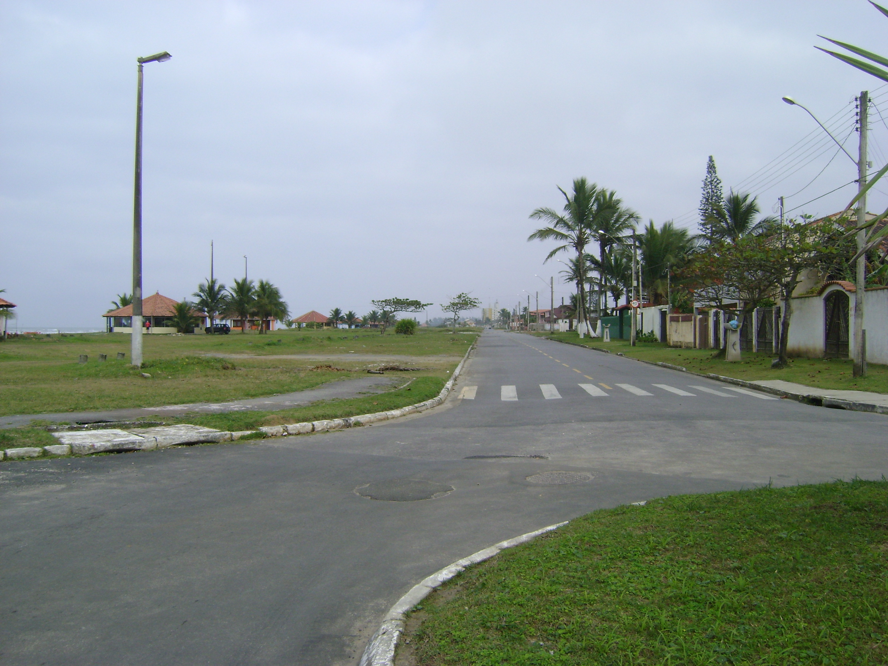 itanhaém beach Brasil